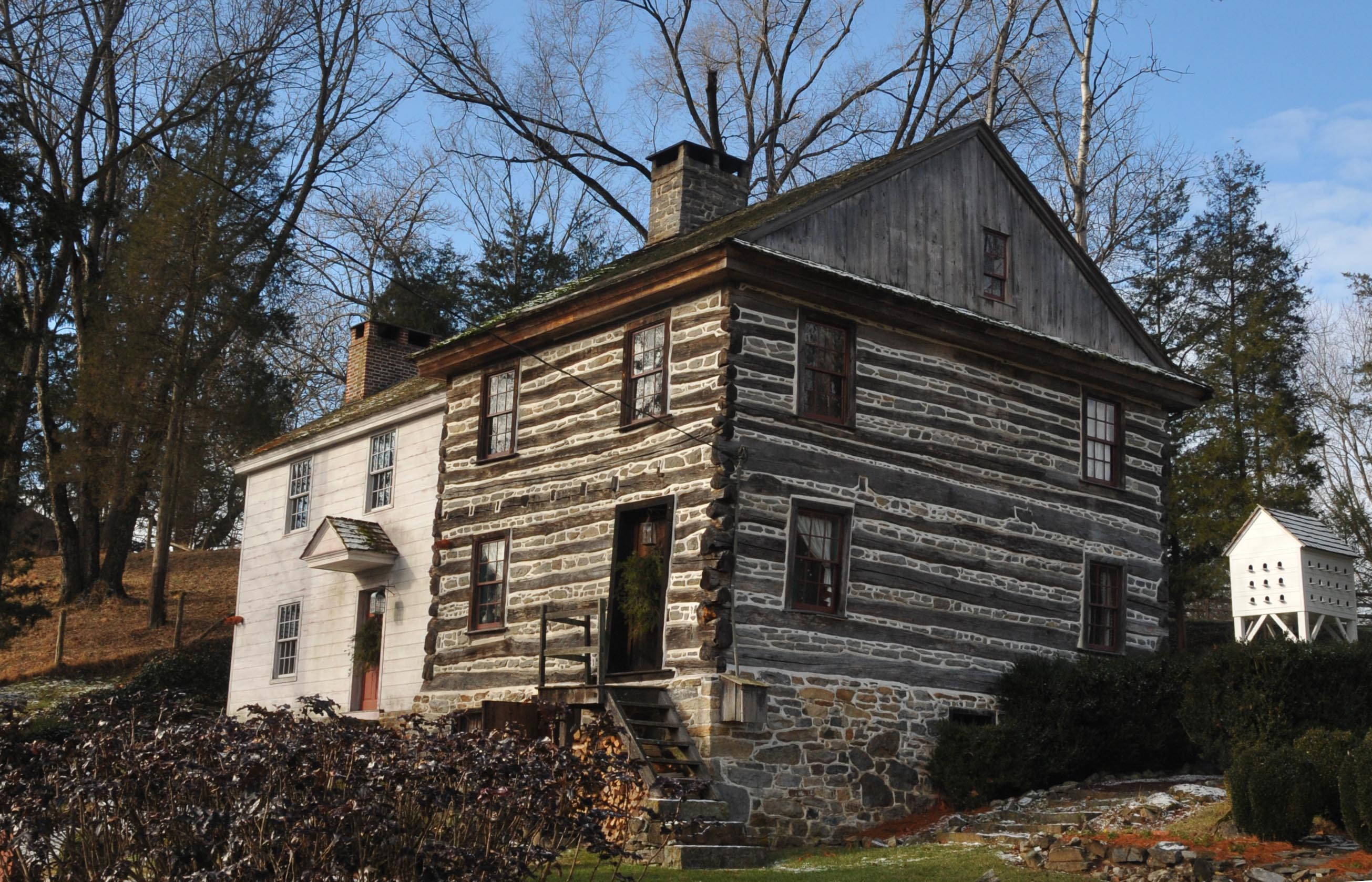 SETTLED BY BENJAMIN SEIGLE IN 1793. HE BUILT A TWO STORY LOG HOME WHICH IS THE ONLY SURVIVING ONE IN WARREN COUNTY AND ONE OF THE FEW IN NEW JERSEWY. THEY ALSO OWNED A GRIST MILL, CLOVER MILL, BLACKSMITH SHOP, AND A HEMATITE MINE